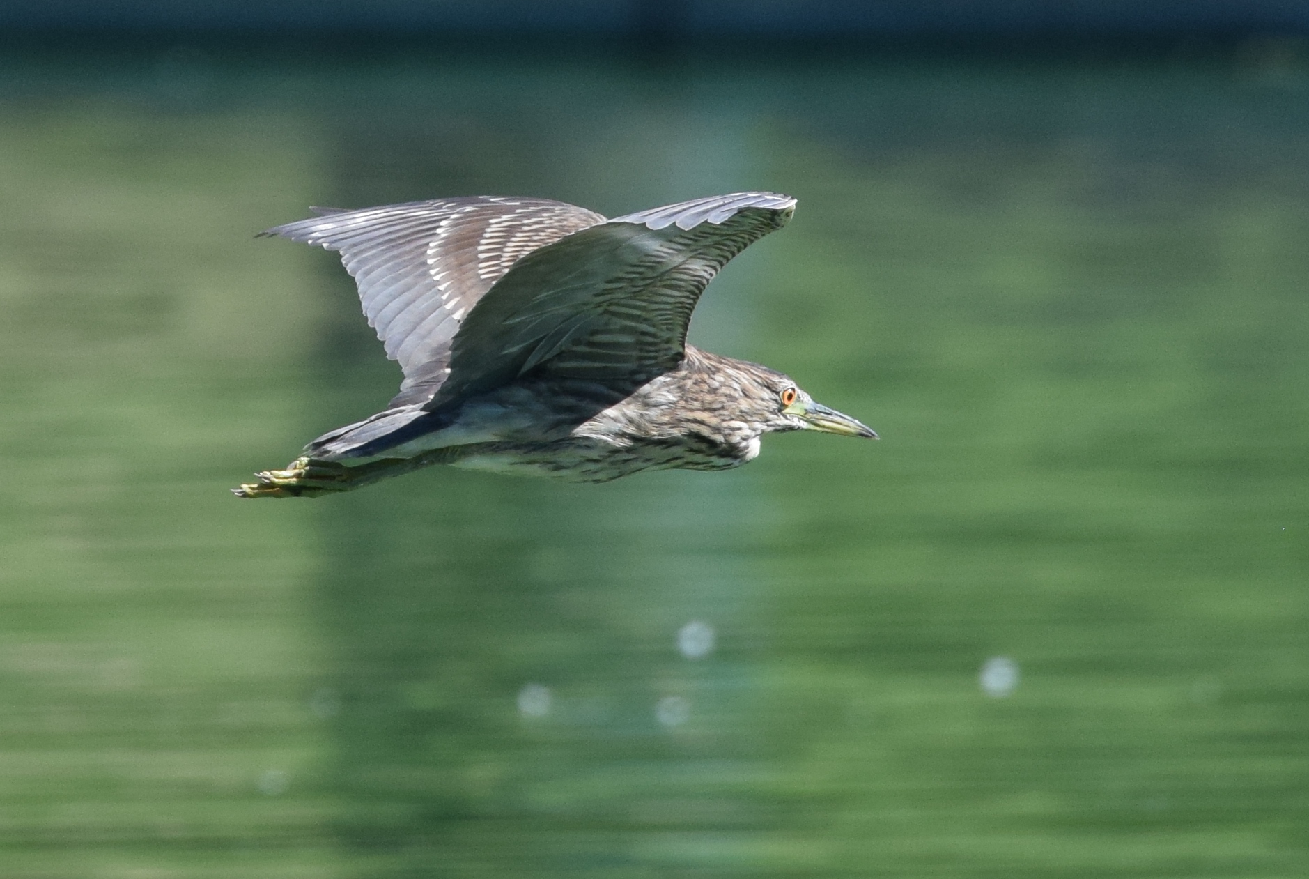 Black-crowned Night-Heron